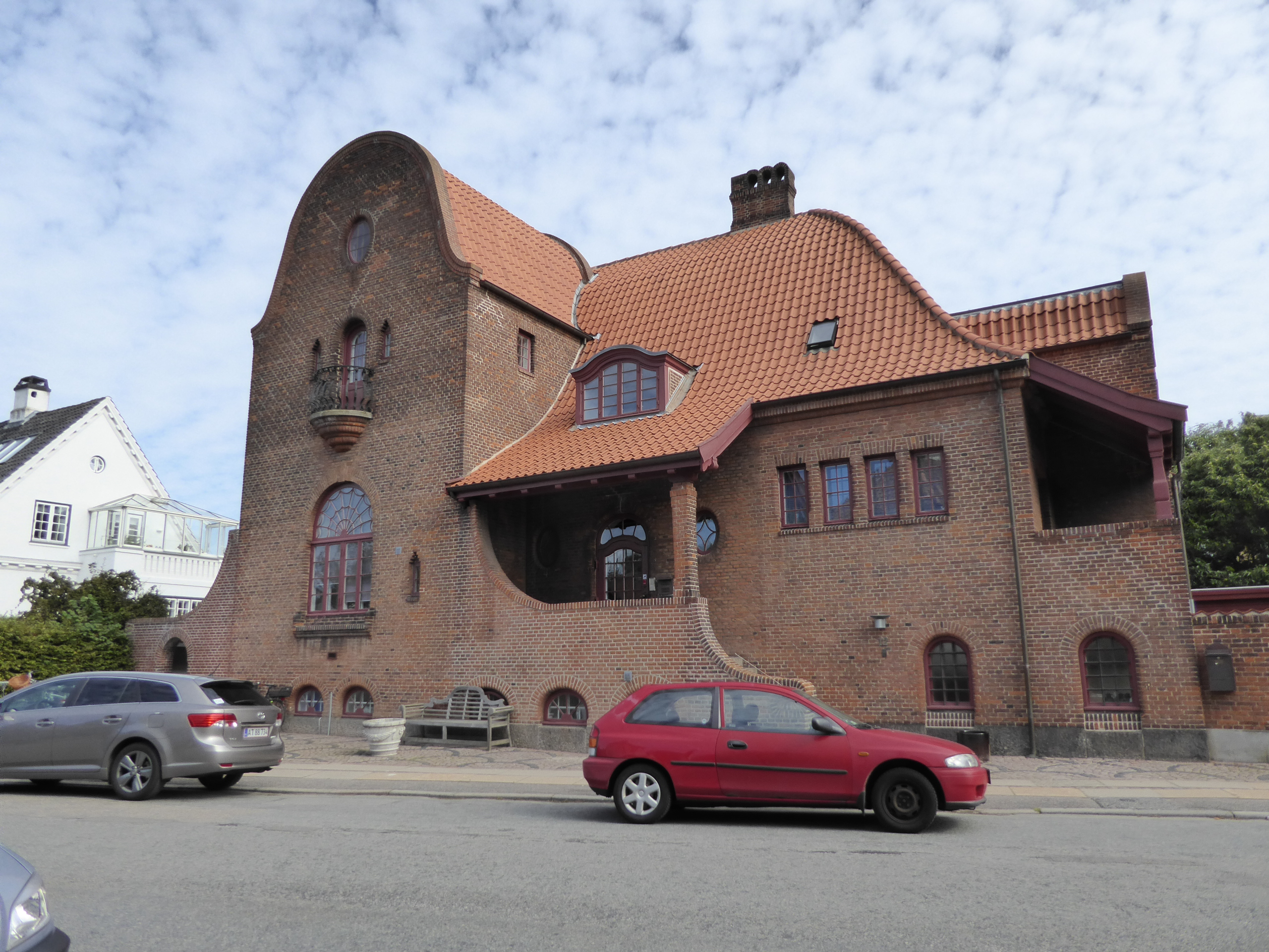 Lundevangsvej 12 in Østerbro, Copenhagen, Denmark